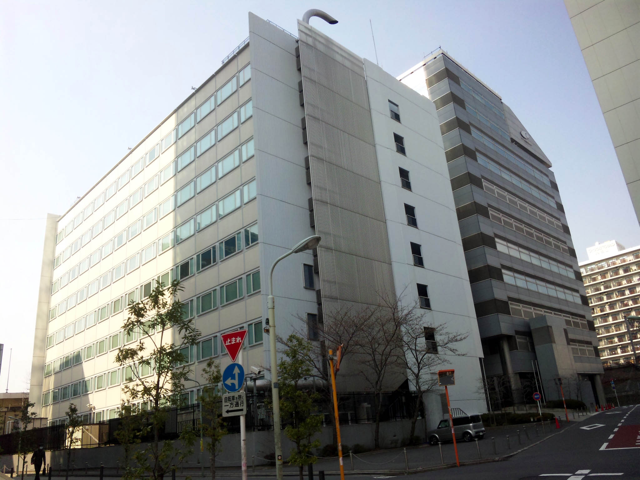 NTT Comware Gotanda Bild